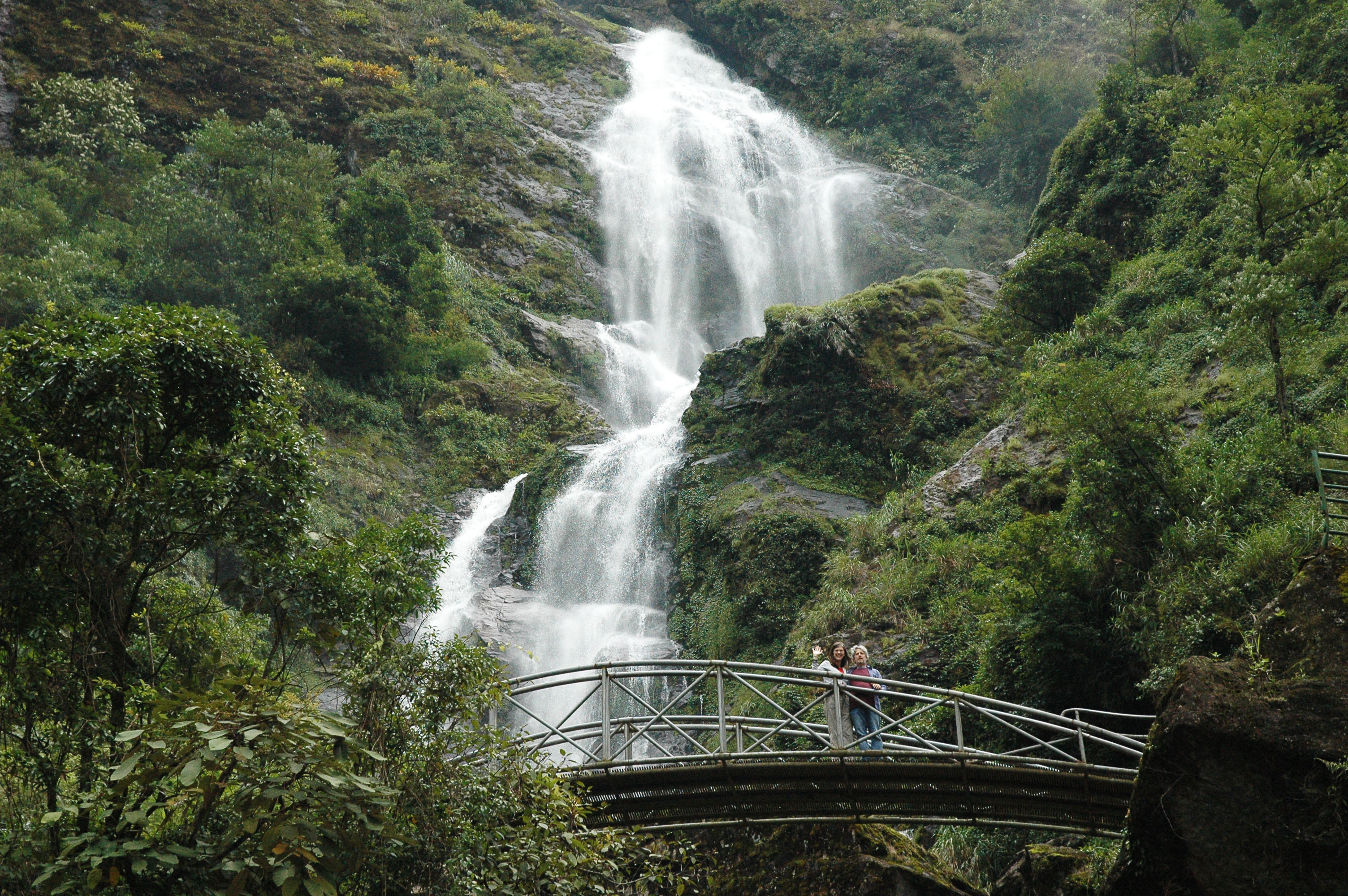 Bac Falls (Silver Falls), Sa Pa, Vietnam